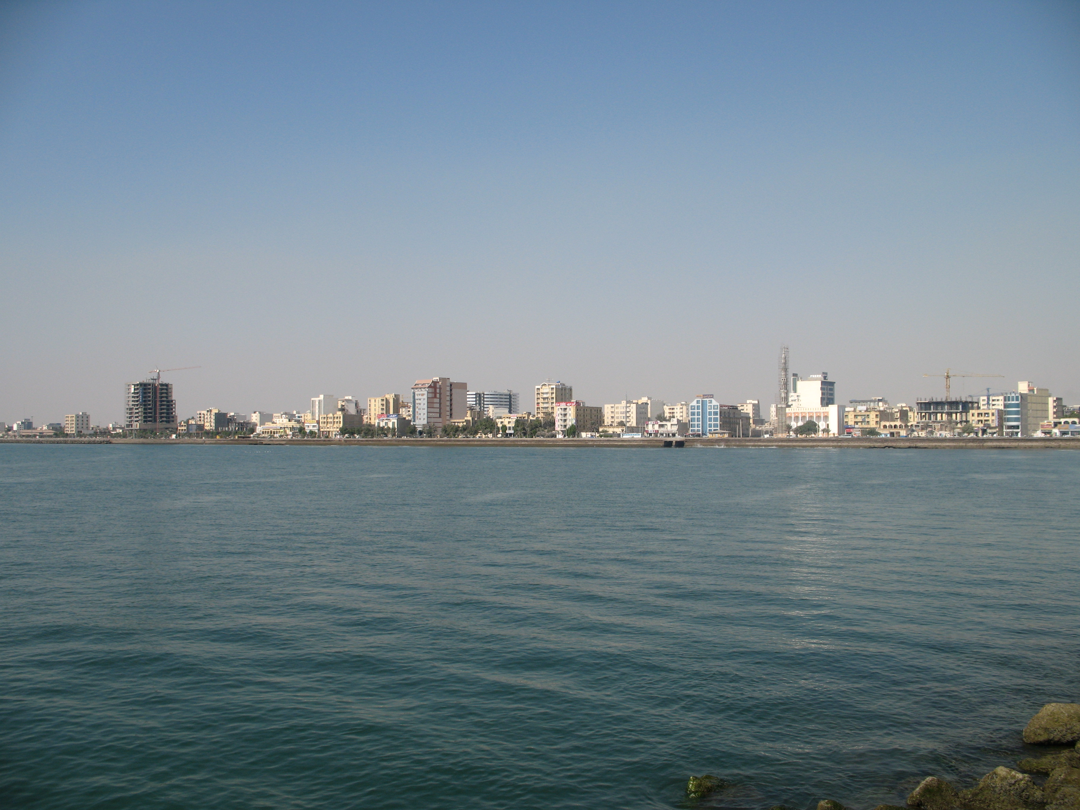 Bandar Abbas, Iran